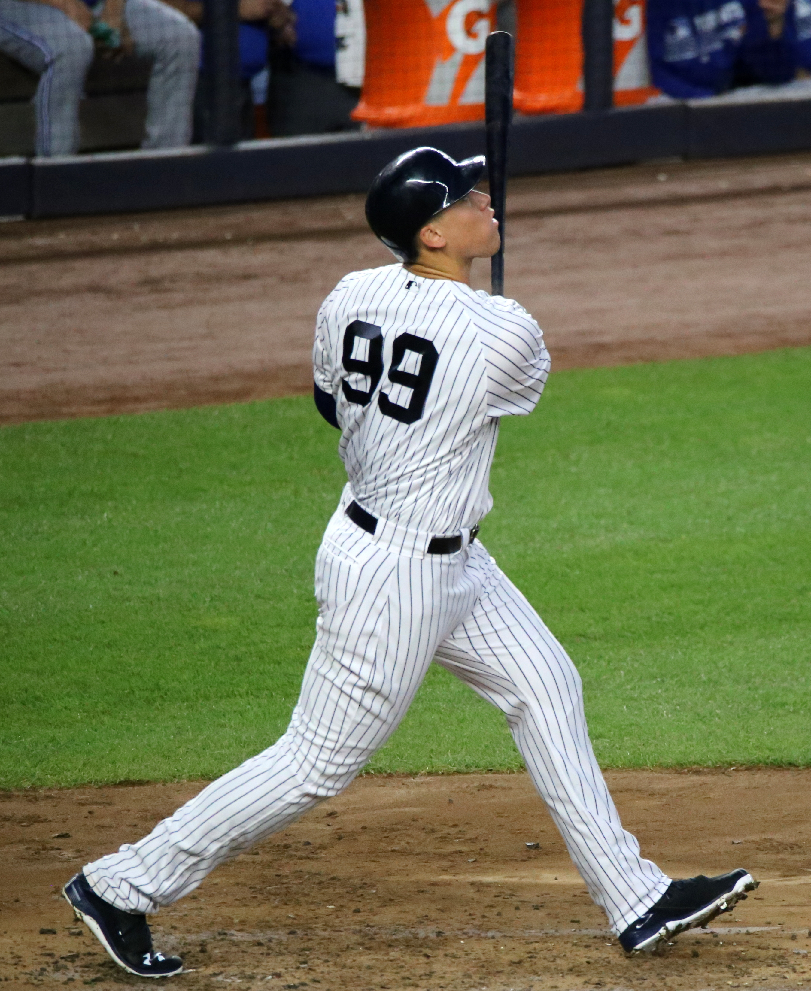 Aaron Judge